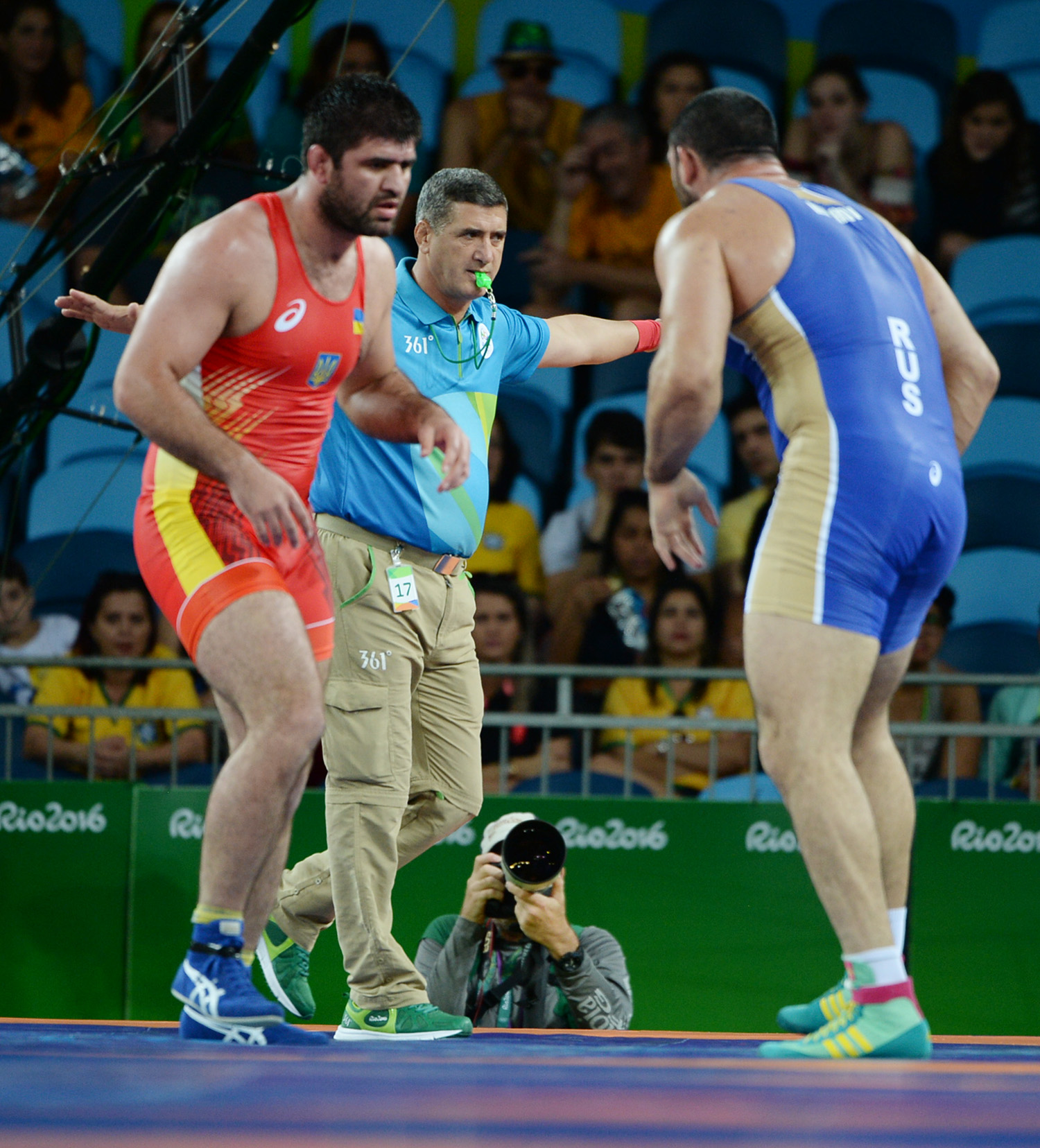 Wrestling at the 2016 Summer Olympics, Makhov vs Zasyeyev